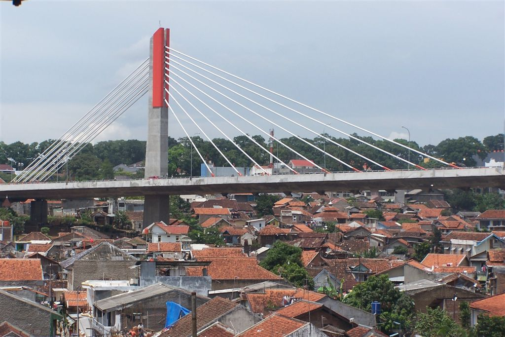 The Pasupati Bridge on top of resident houses, North Bandung, West Java, Indonesia.